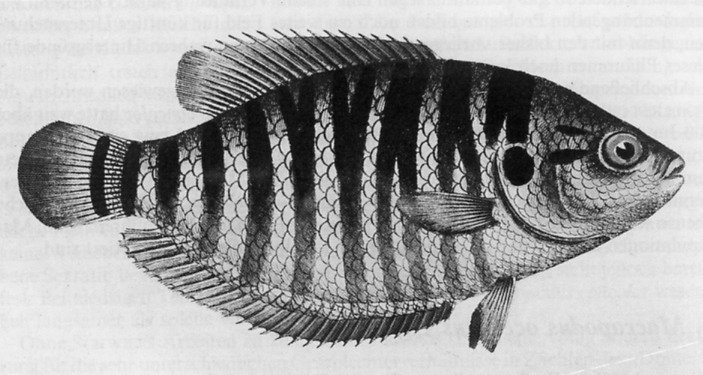 Etching of "Chaetodon chinensis" in "Naturgeschichte der ausländischen Fische" from Marcus Elieser Bloch, edited 1790, Berlin.